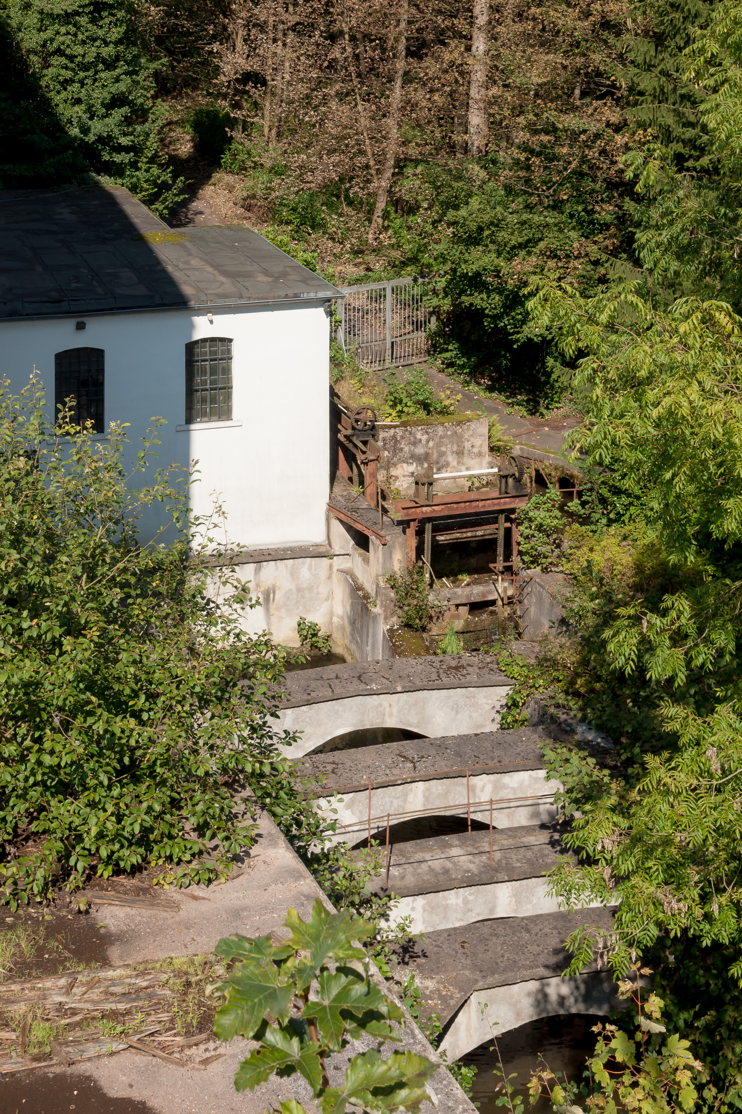 Roesrath, Germany: Building of the listed monument No. 92, housing the a Fontaine Water Turbine This is a photograph of an architectural monument.